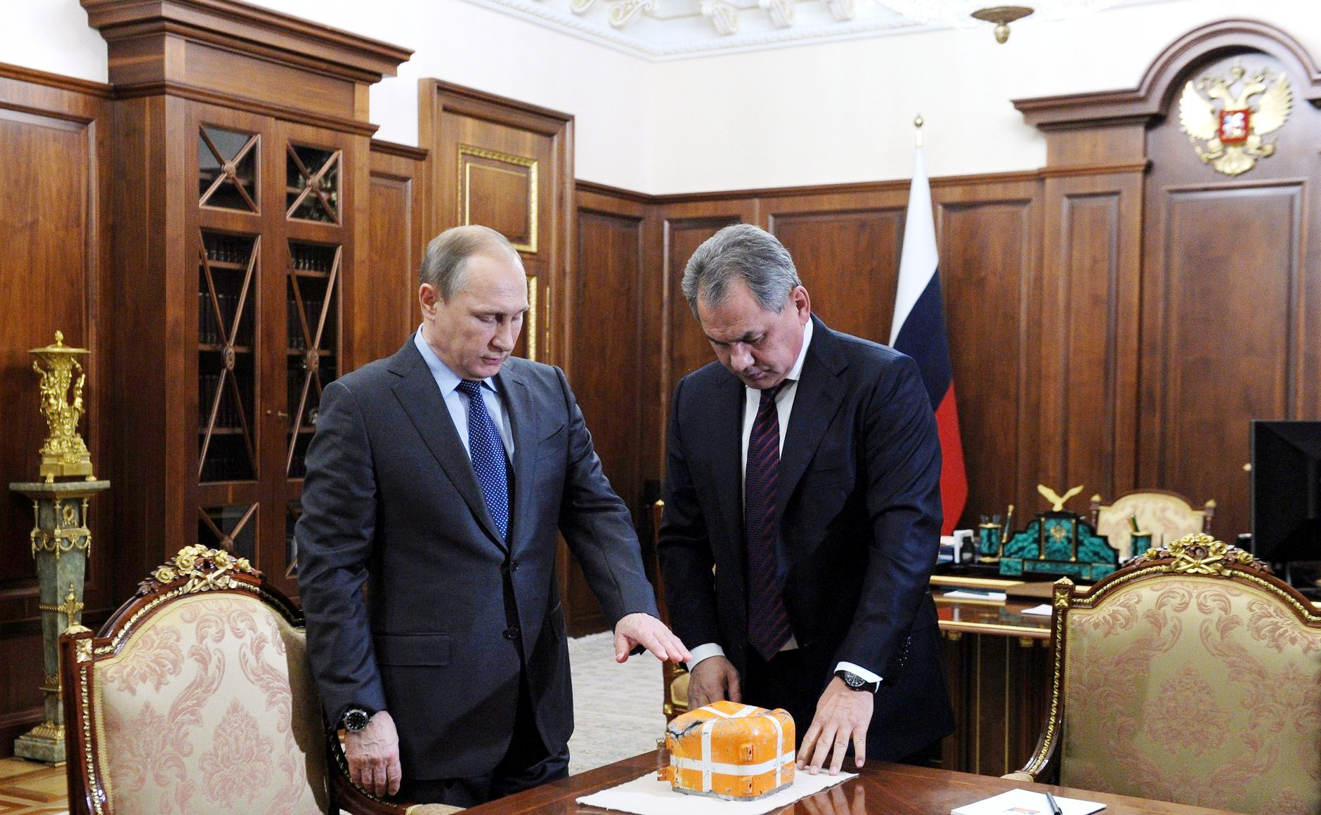 Russian Defence Minister informed the President on the discovery of the flight data recorder from the Russian fighter jet shot down in Syria